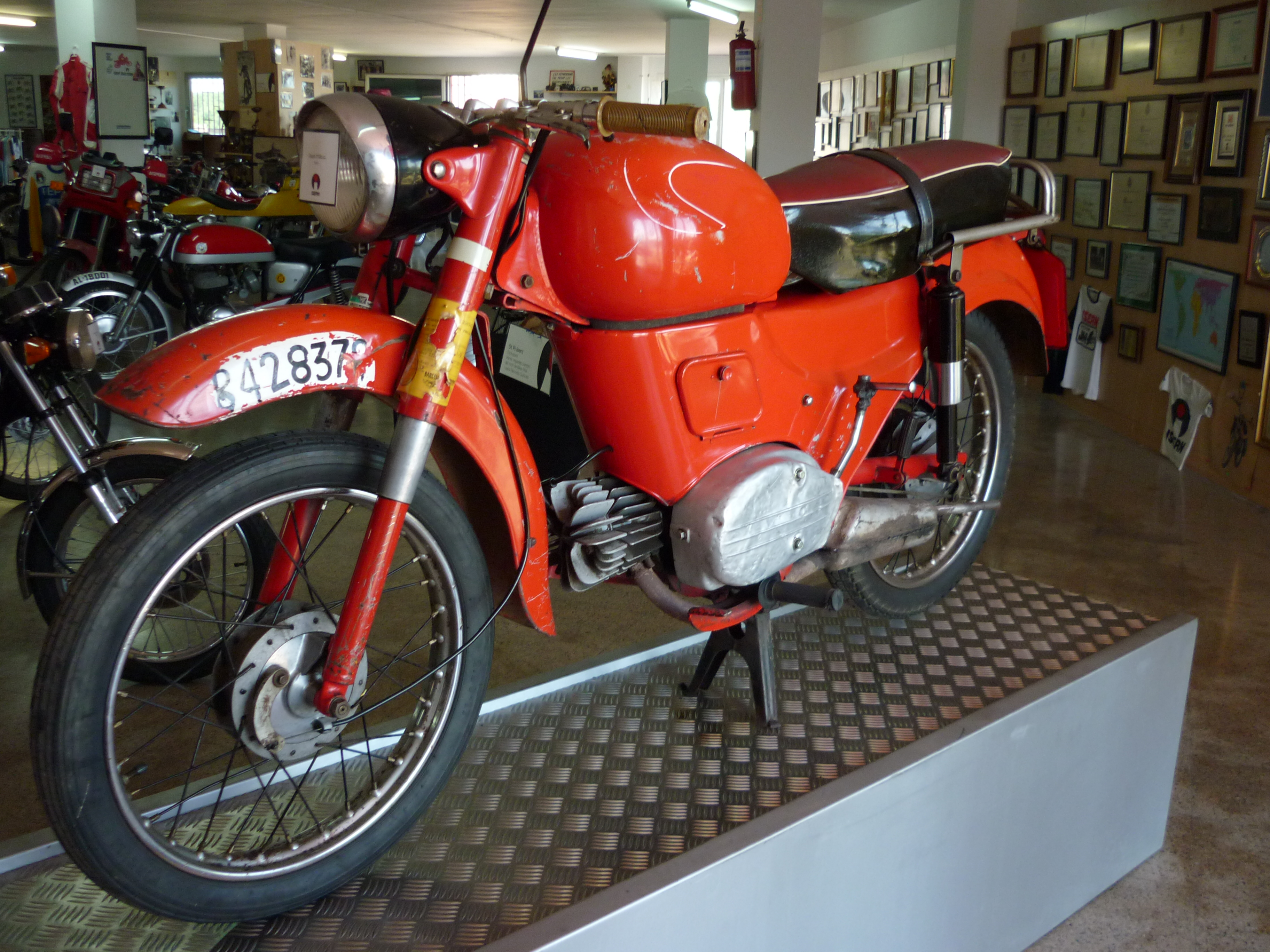 Moto Guzzi 110cc (circa 1965).Isern Motorcycle Museum, Mollet del Vallès (Catalonia).